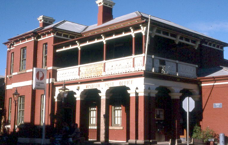 post office, australia